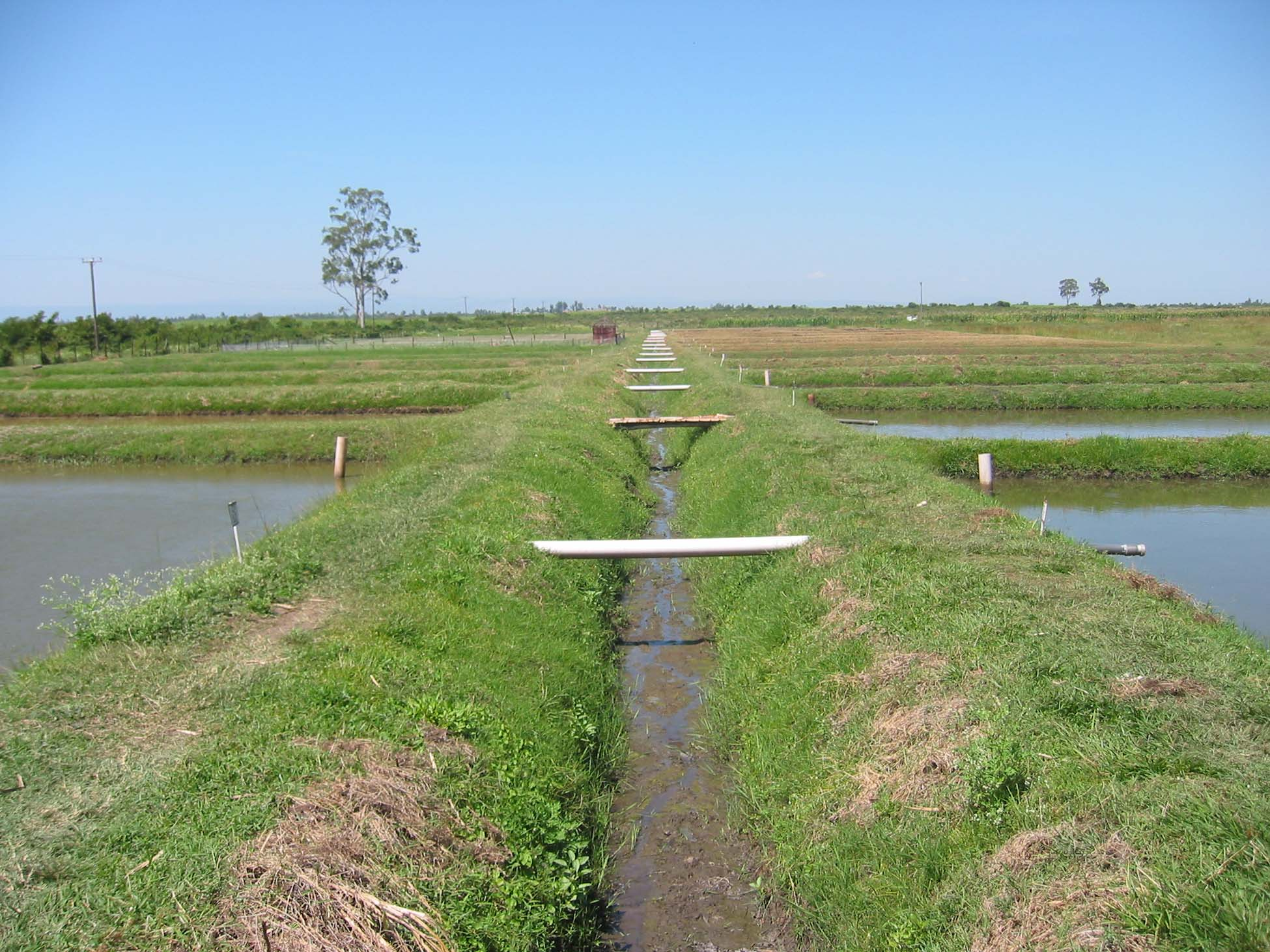 Kenya: Medium-Scale Catfish Ponds.